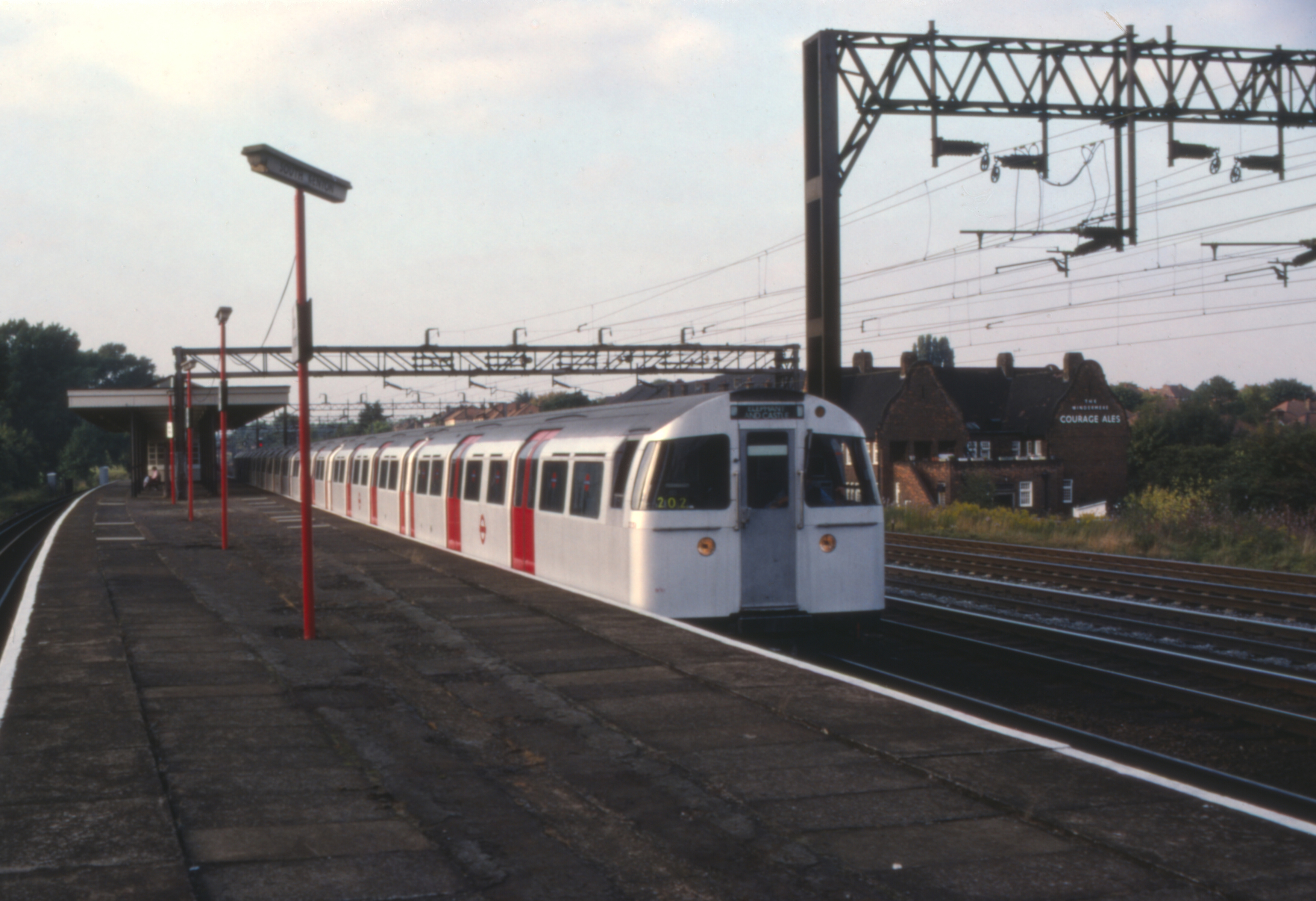 Southbound London Underground Bakerloo line 1972 Mk2 Tube Stock train travelling to Elephant and Castle arrives at South Kenton station.